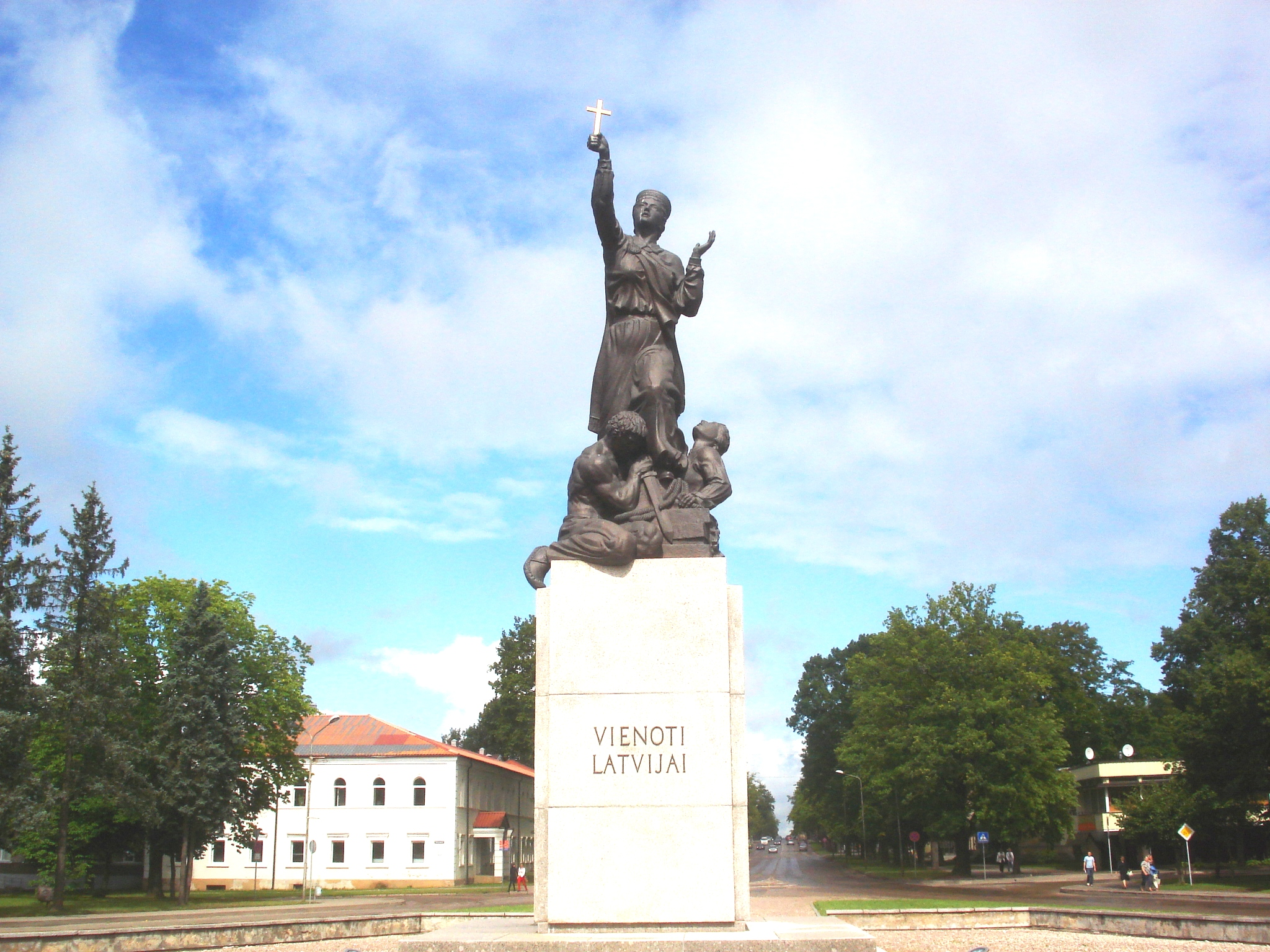 Latgales Māra